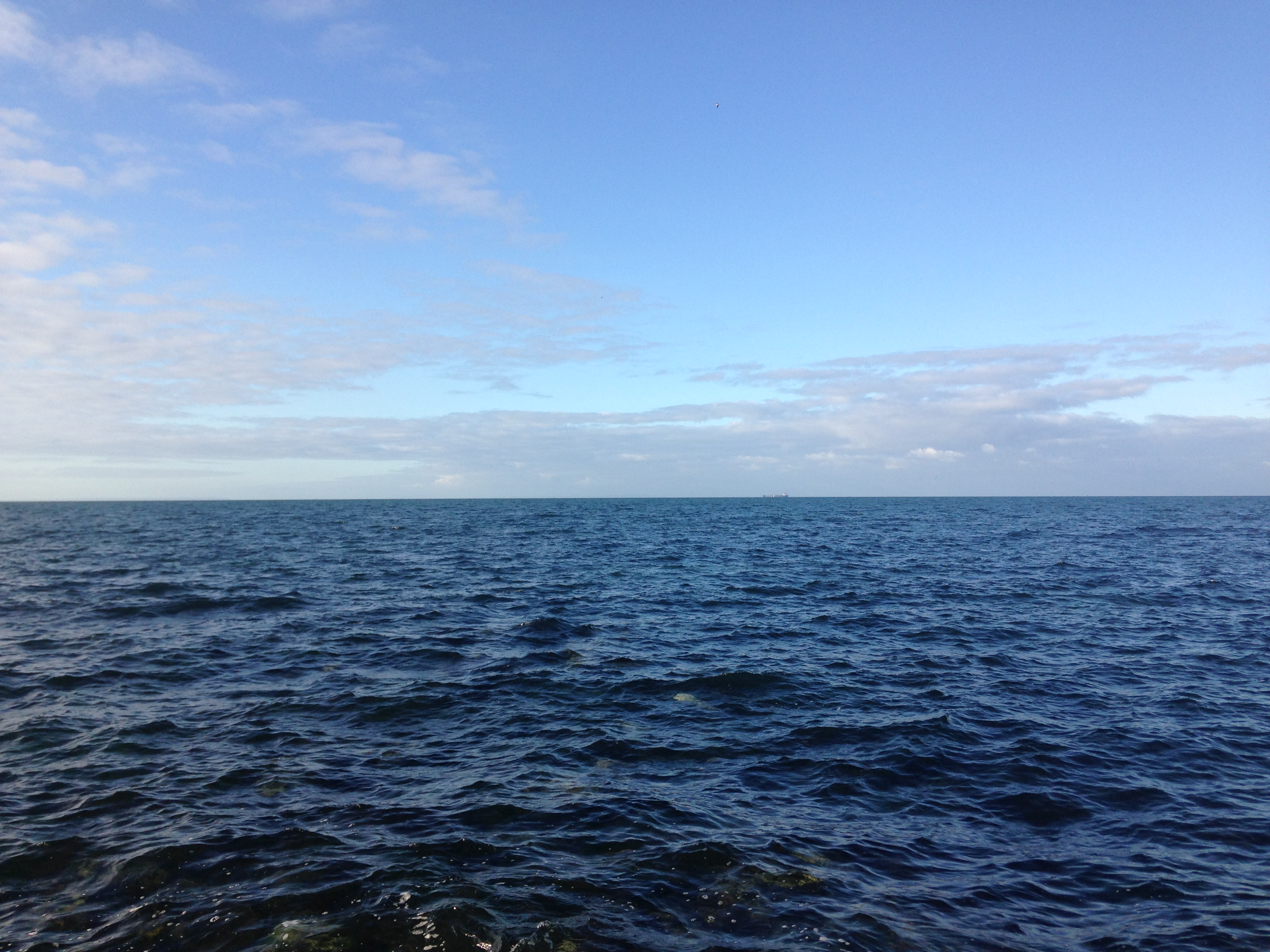 View of the bay from Gloucester Reserve, Williamstown, Australia